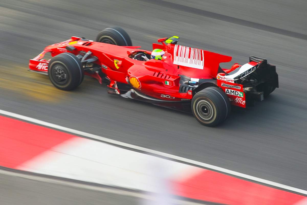 Felipe Massa driving for Scuderia Ferrari at the 2008 Chinese Grand Prix.